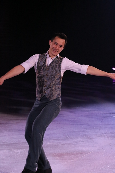 Patrick Chan perfoms at the 2016 Stars On Ice